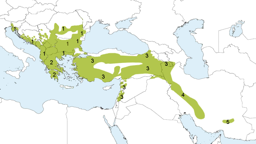 Parus lugubris. Distribution map